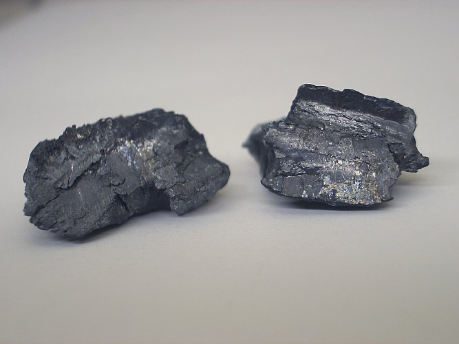 Praseodymium pieces